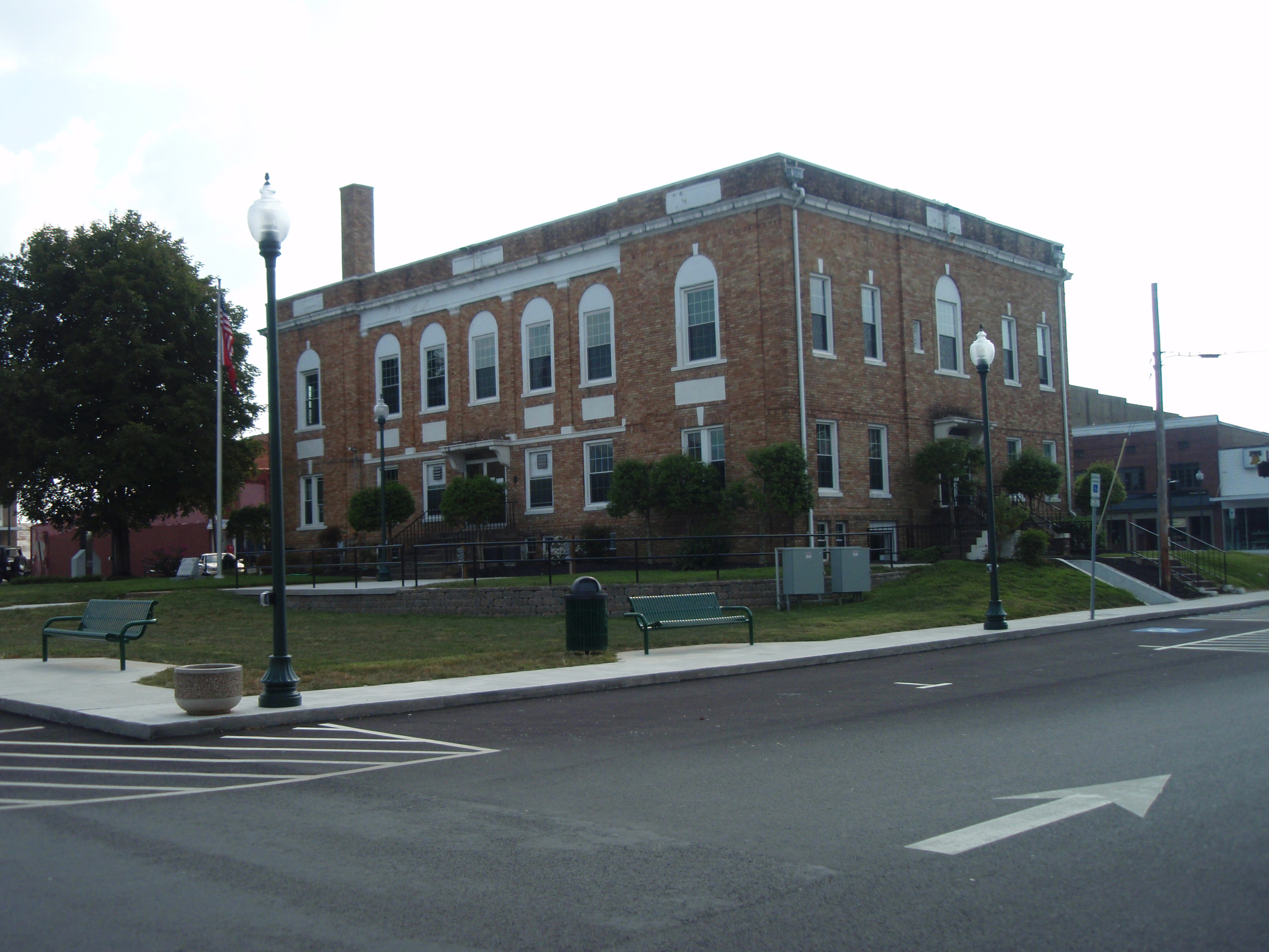 Hickman County Courthouse in Centerville, Tennessee, United States